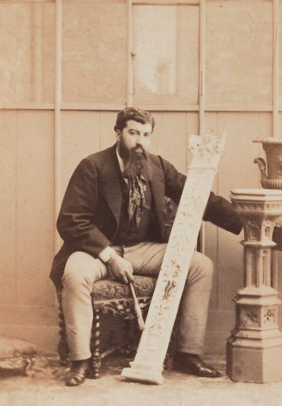 Portrait of French photographer Camille Silvy by Silvy. Albumen print. 3 1/4 in. x 2 1/4 in. Courtesy of the National Portrait Gallery, London.